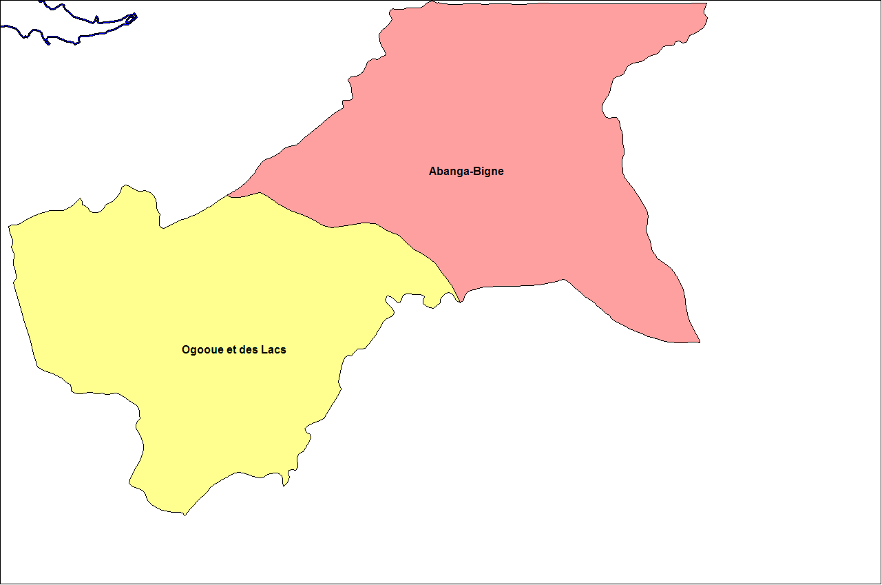 Map of the departments of Moyen-Ogooue province in Gabon. Created by Rarelibra 20:21, 2 January 2007 (UTC) for public domain use, using MapInfo Professional v8.5 and various mapping resources.